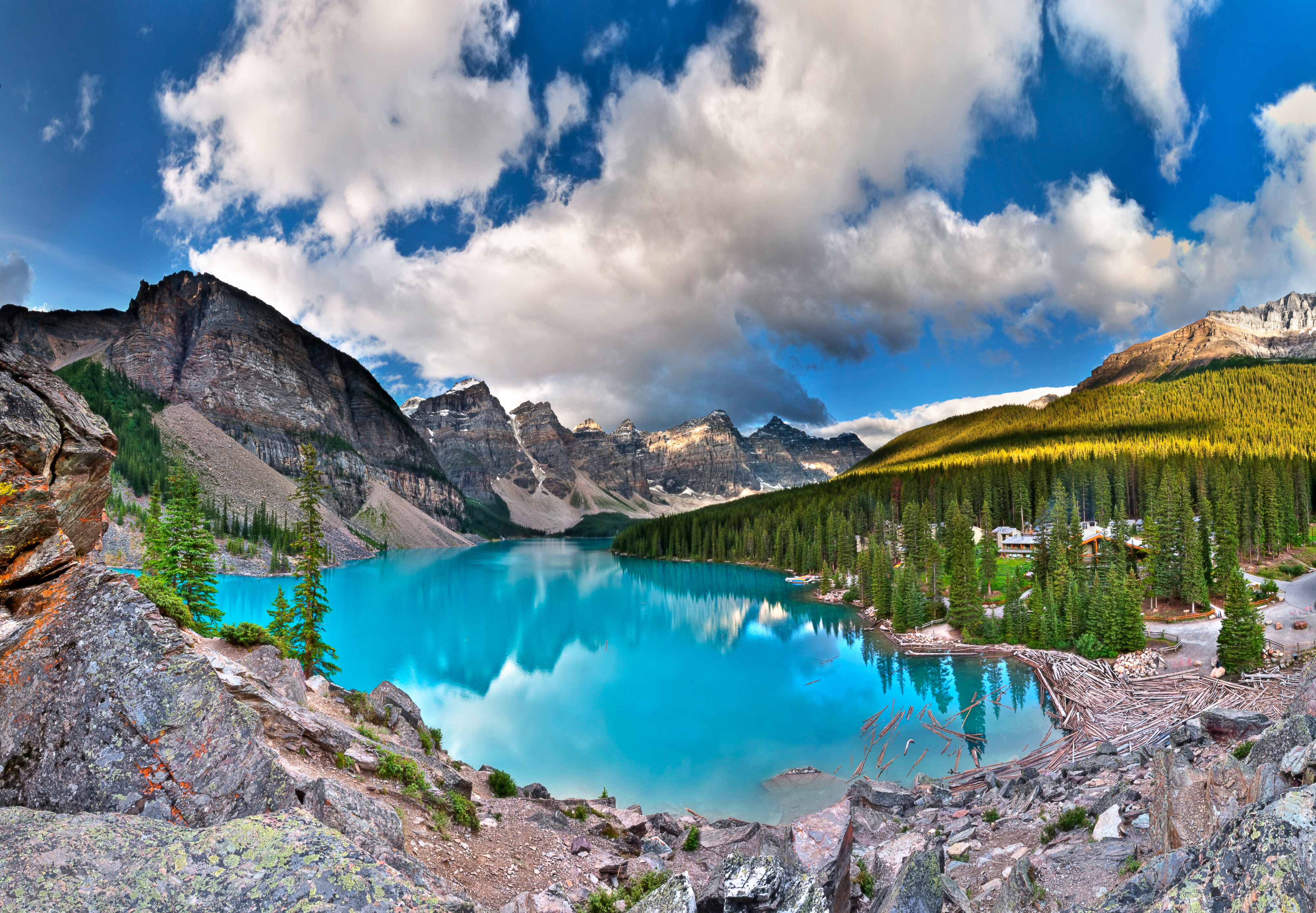 21-photo HDR panorama of Moraine Lake, a glacially-fed lake in Banff National Park, Alberta, Canada.